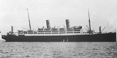 S/S Kungsholm 1928 Shipyard: Blohm & Voss, Hamburg, Germany Year: 1928 Tons: 21,250 No of passengers: 1544 Delivered to SAL: 1928 Sold: 1941 Sold to: US Government Renamed: John Ericsson, 1948 Italia Today: Scrapped in 1965